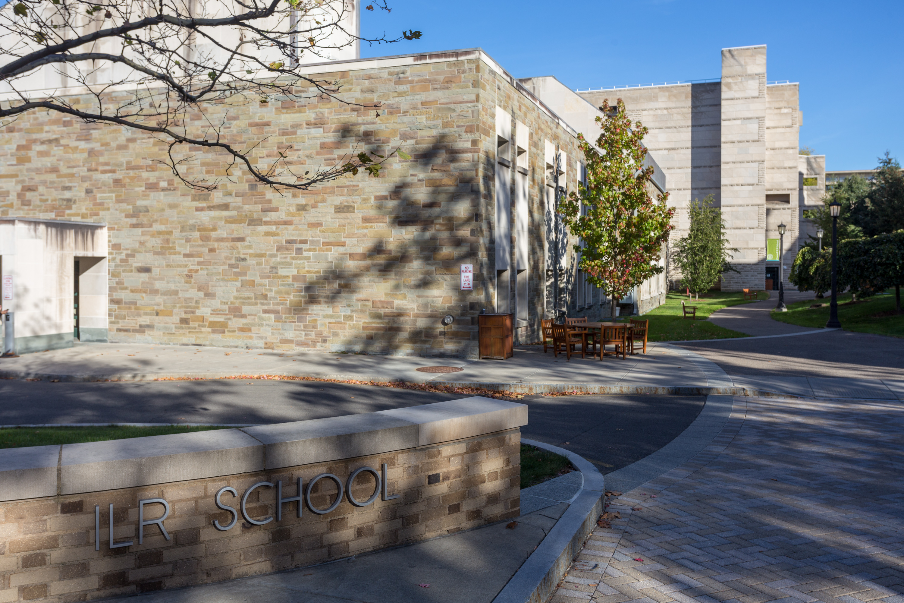 Cornell ILR School - East Ives Hall